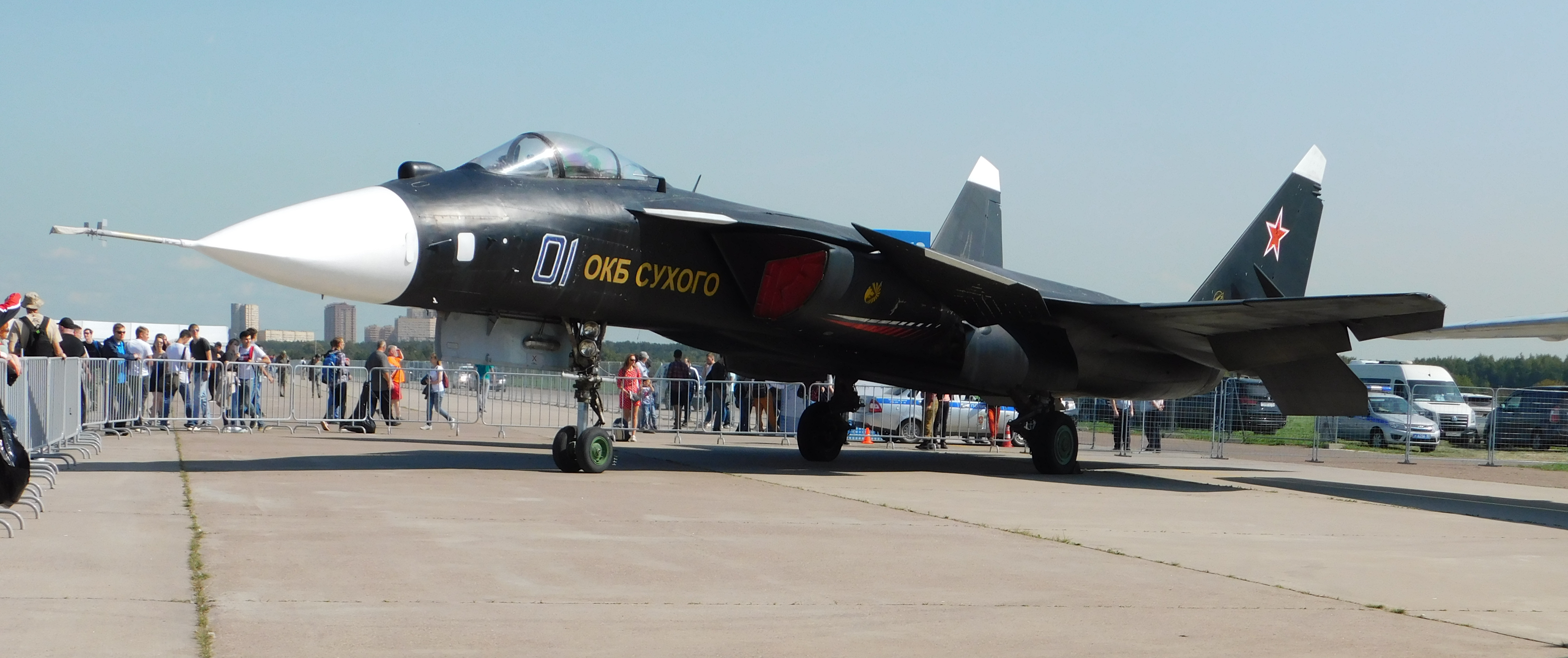 MAKS Airshow 2019 (2019-08-30)